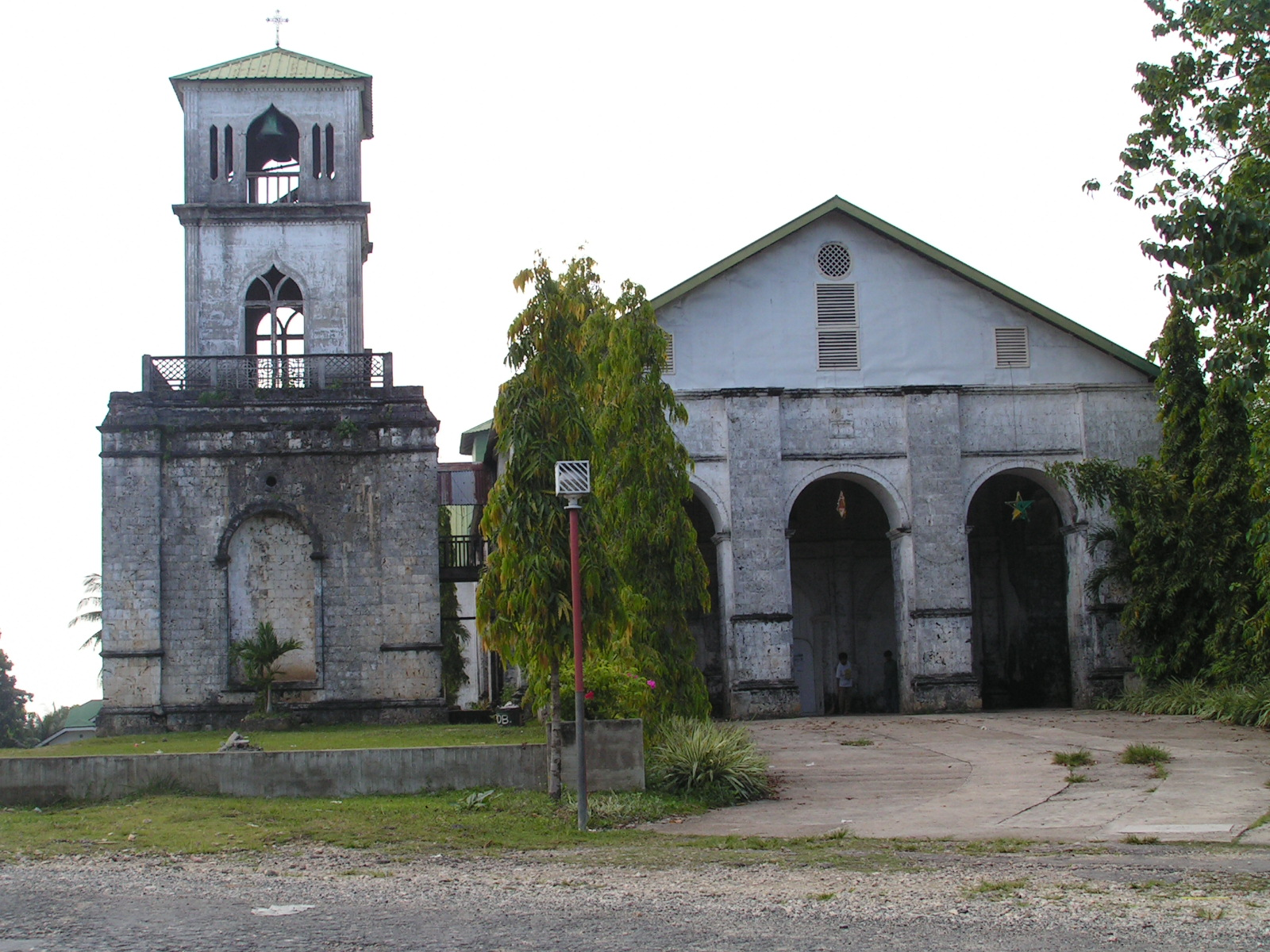 self-taken